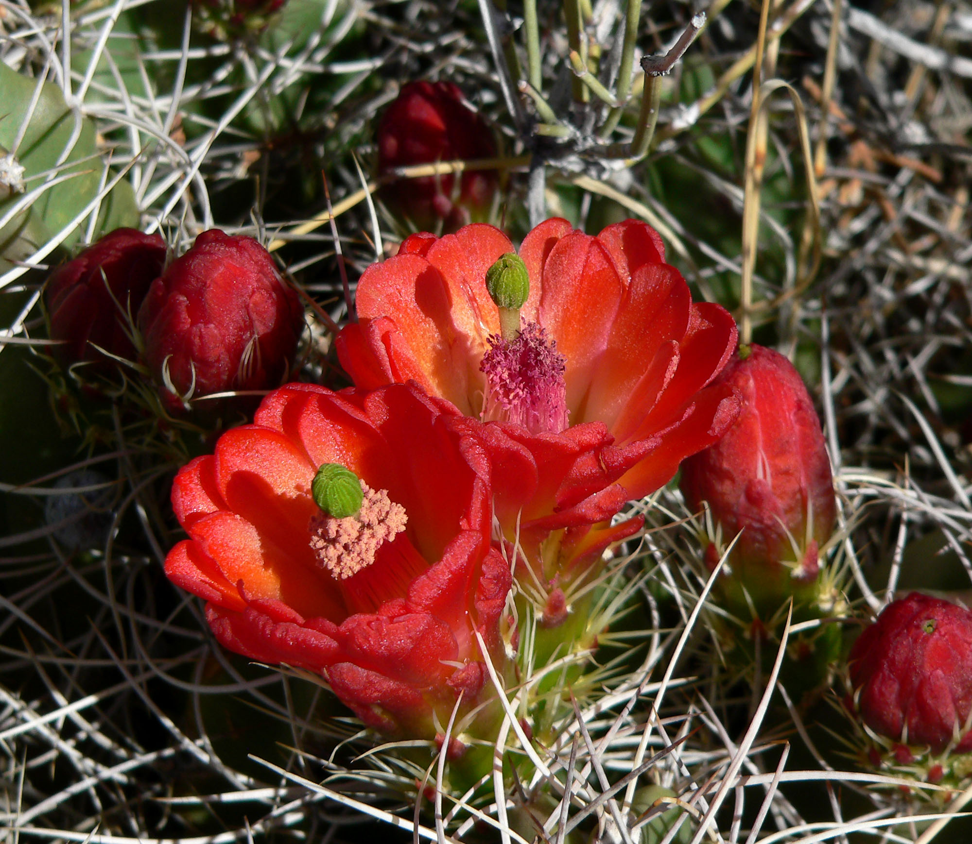 Echinocereus triglochidiatus on Cima Dome near Teutonia Peak, Mojave National Preserve, California